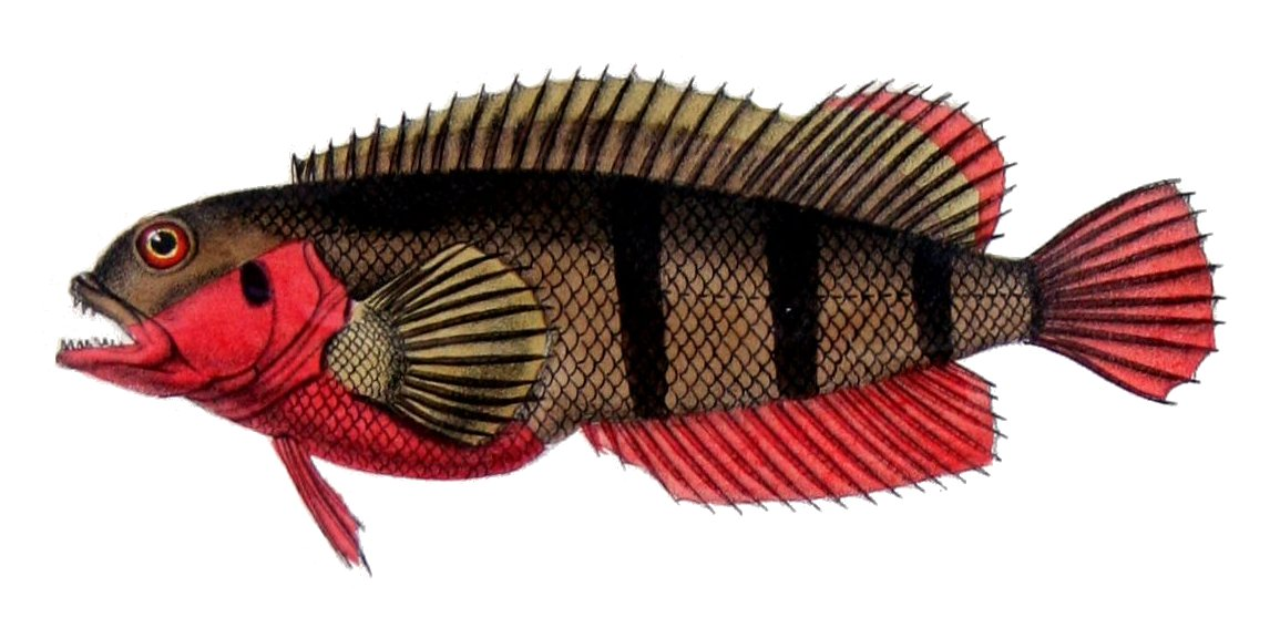 Clinus fasciatus Cast. = Labrisomus nuchipinnis (Quoy & Gaimard, 1824)